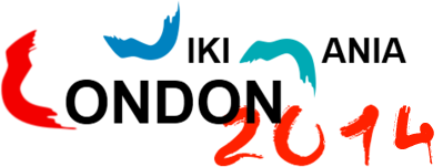 Logo of WikiMania 2014 London